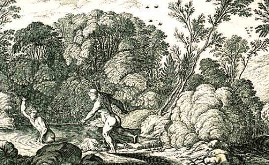 Salmacis & Hermaphroditos, Ovid Edition 1703